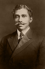 Dr. M.T. Pope in 1900